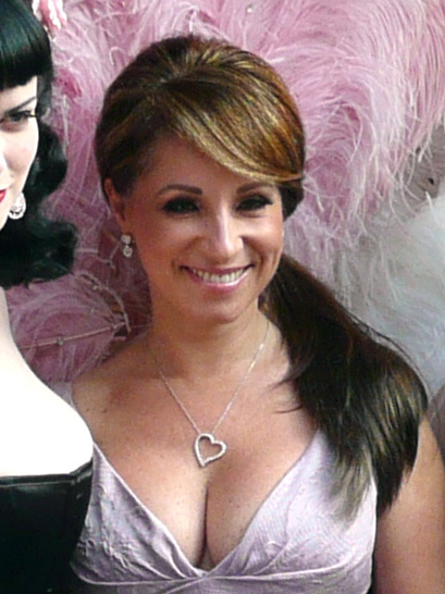 Jacqueline Gold (with models to left and right) outside the Ann Summers shop on New Oxford Street, London, United Kingdom on 9 June 2008.